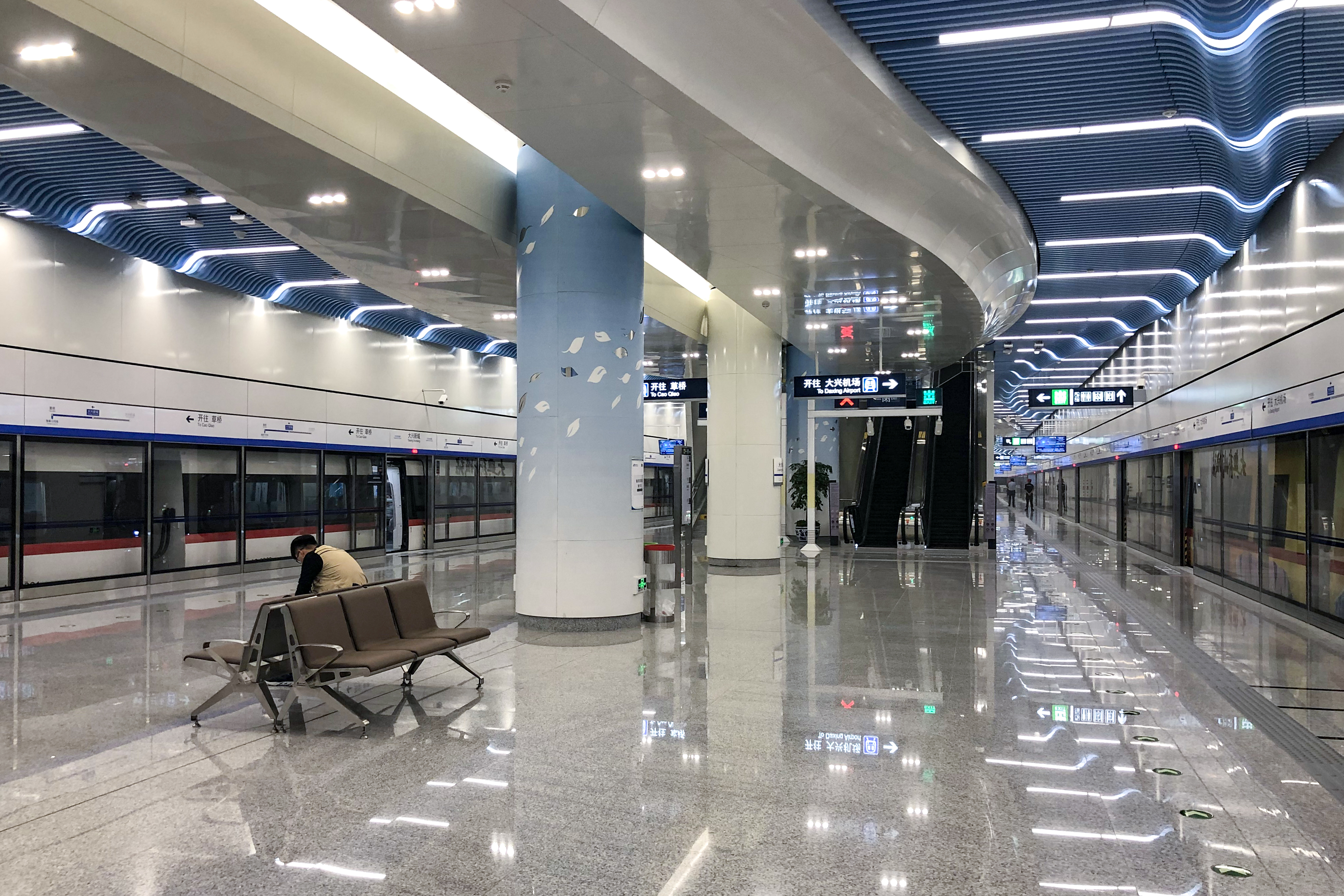 This station is designed in Maritime Silk Road theme, but I can't find the connection between this place and marine things. By the way, I felt a bit dusty inside the station...